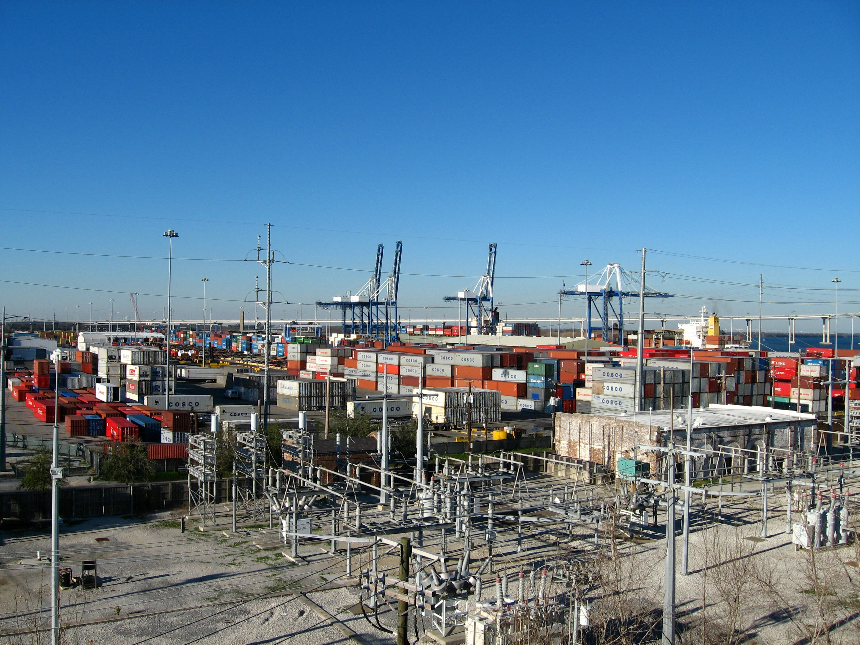 Distant view of the Columbus Street Pier terminal in downtown Charleston, S.C. I was standing on top of the Fort Sumter/S.C. Aquarium city parking structure facing approximately NNE.